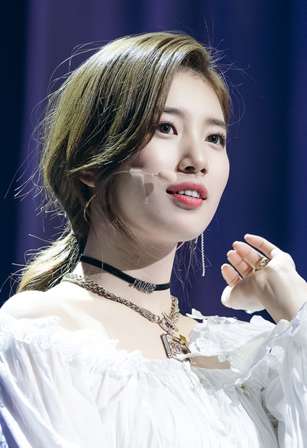 Suzy Bae at 'Faces of Love' showcase on January 29, 2018.